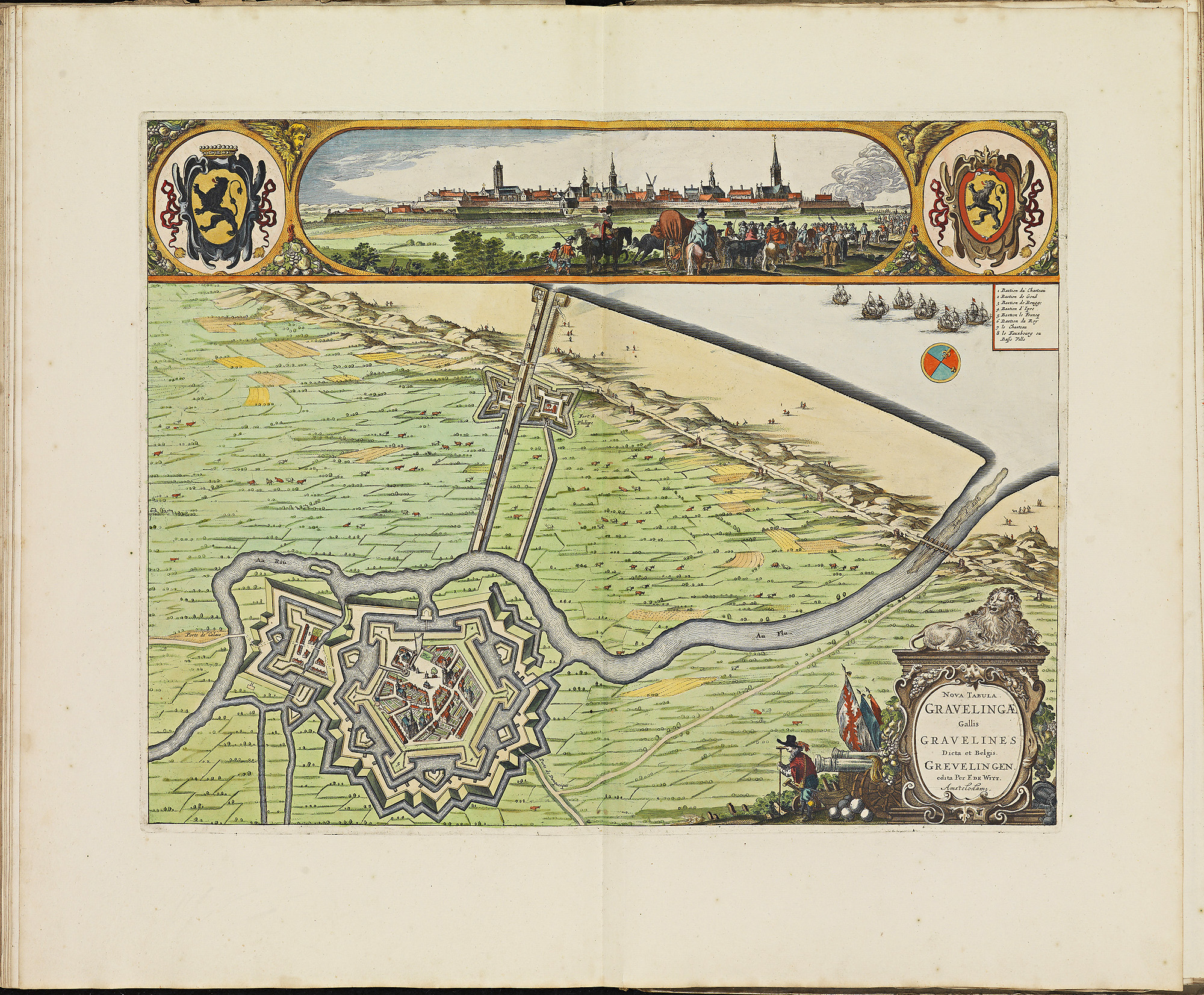 Plate 'pl094'(Grevelingen (Gravelines)) from the Stedenboek (citybook) by Frederick de Wit.